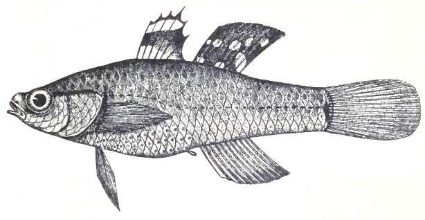 Bagsit, Hypseleotris bipartite Herre, 1927 = Hypseleotris cyprinoides (Valenciennes, 1837)